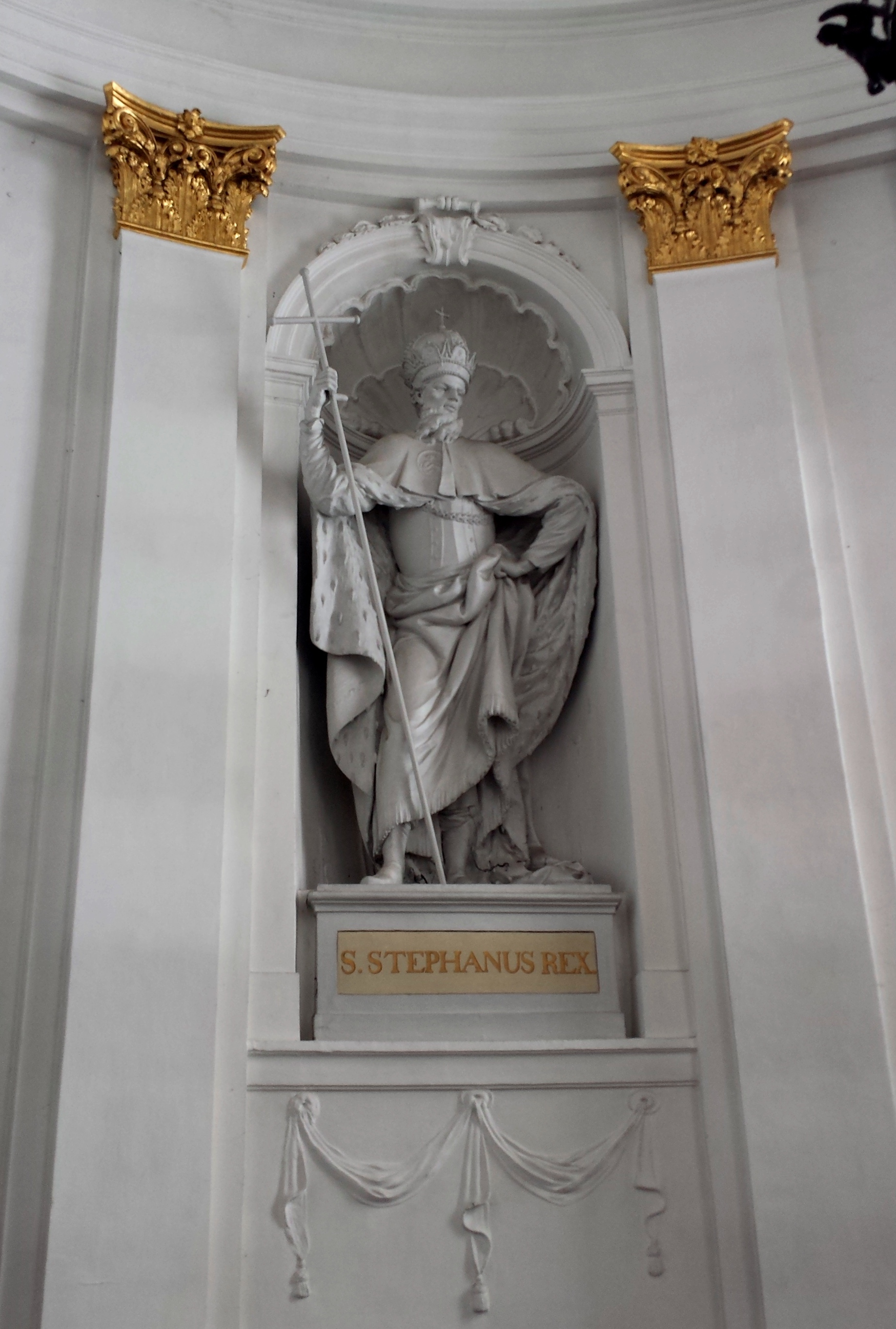 Statue of S. Stephanus Rex in Aachen Cathedral